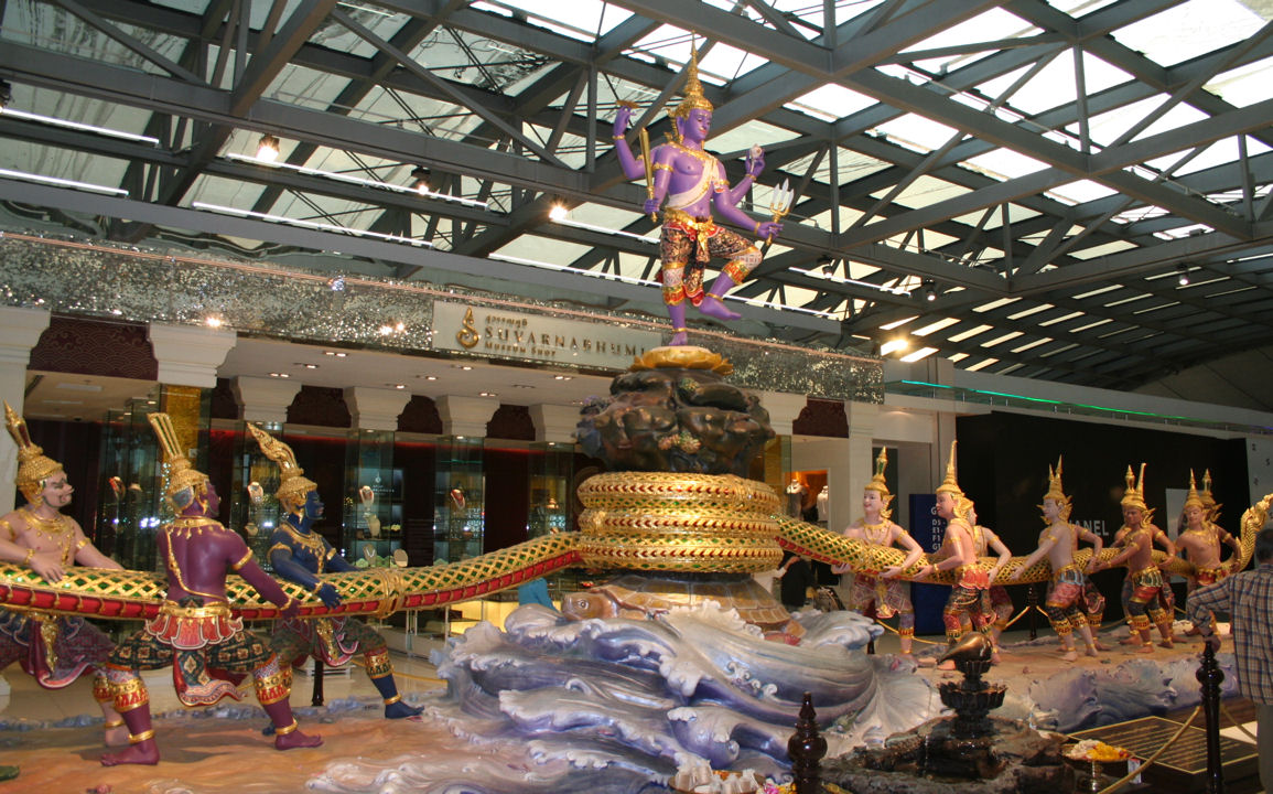 The new Suvarnabhumi International Airport, Bangkok, Thailand. Despite the way the airport's name looks when translated to our alphabet, in Thai the new airport is pronounced Soo-wanna-poom. Sculpture depicting the "Churning the milk ocean"